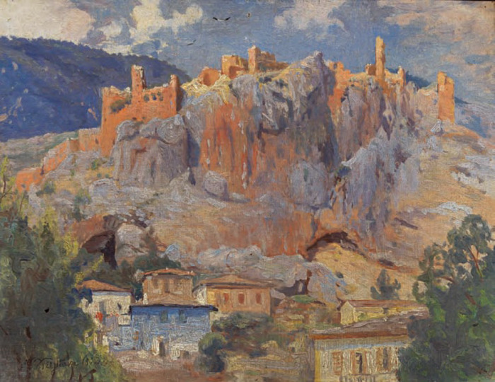 Russian and Greek painter Nikolaos Himonas (1866-1929):Castle of Amfissa